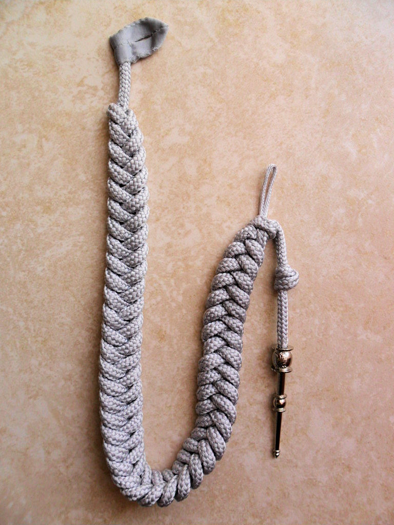 NCO cord